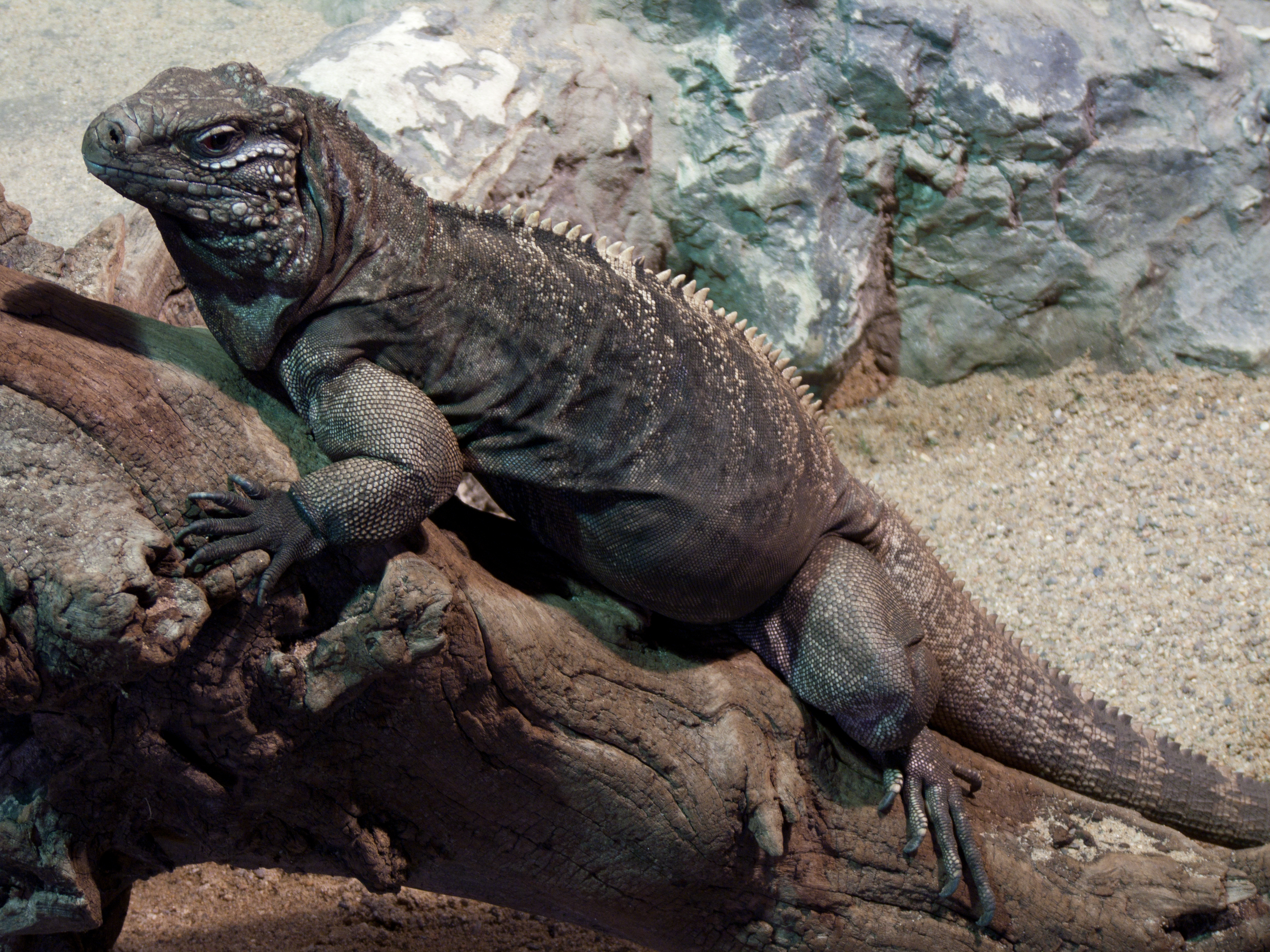 Cuban iguana (Cyclura nubila) in the Rajské ostrovy (Paradise Islands) building of the zoo in Děčín, Czech Republic